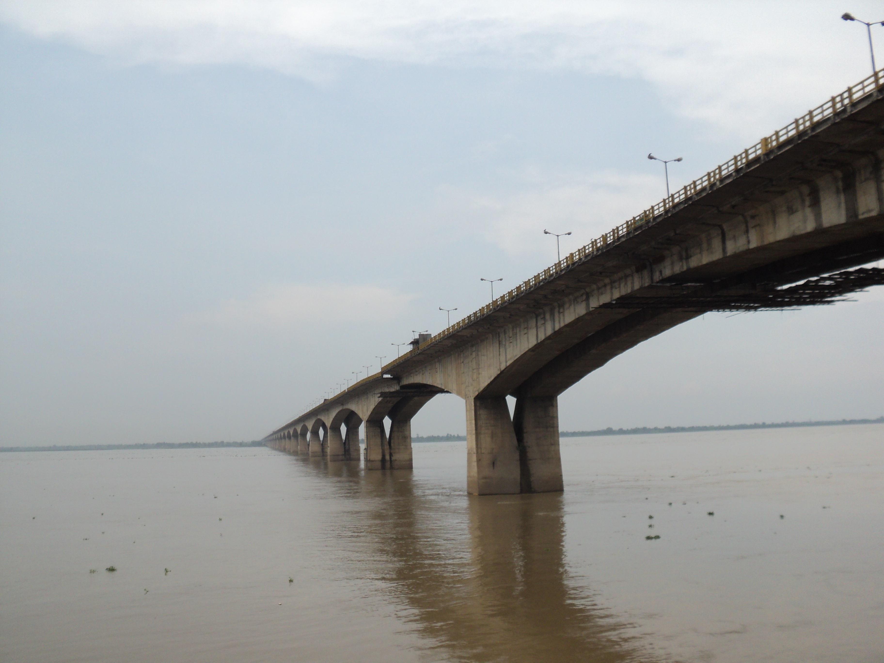 River Ganga in Patna